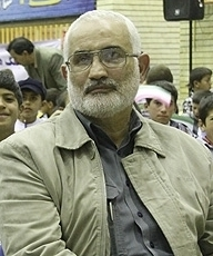 Saeid Sayyah Taheri & Mohammad Hossein Saffar Harandi at the Student Film Festival of Holy Defense